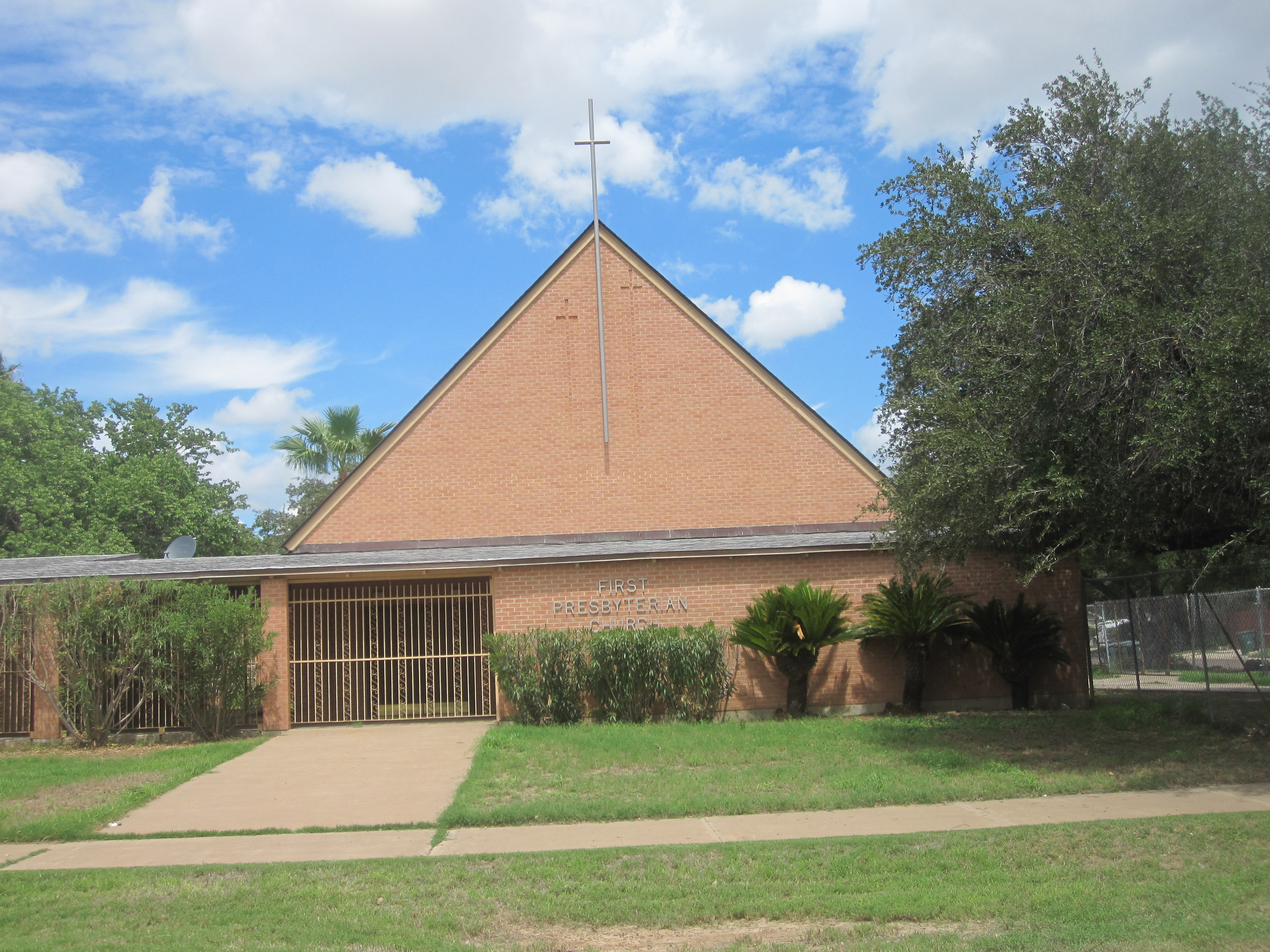 First Presbyterian Church of Laredo, TX IMG_2104.JPG